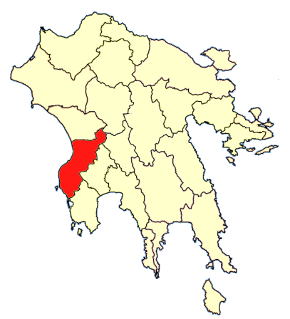 trifylia province